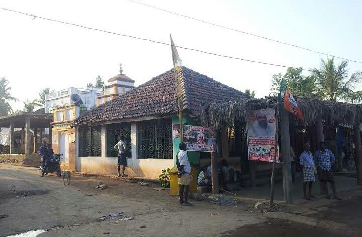 temple